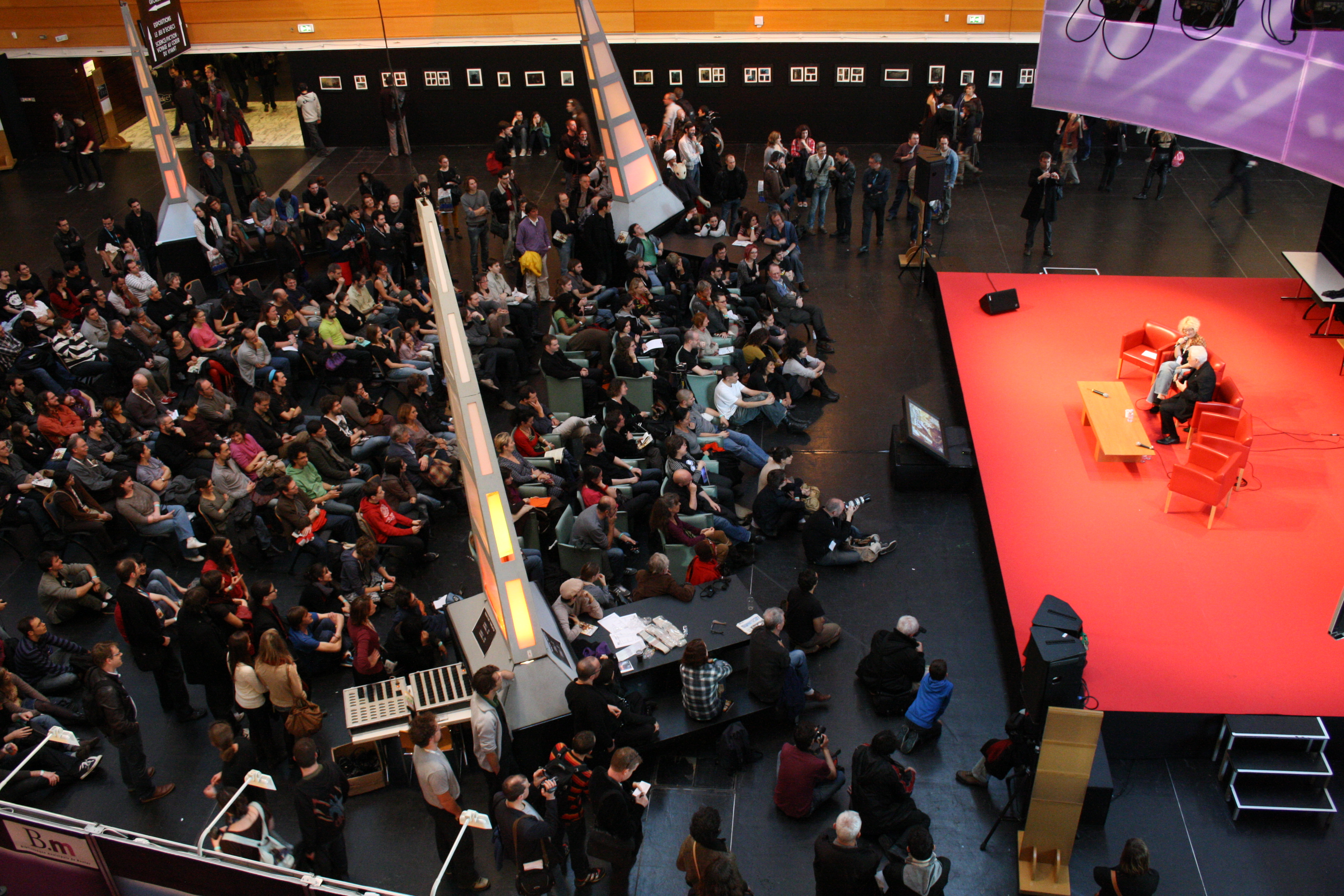 General view of the main stage, during the conference of Alejandro Jodorowsky, at the Utopiales international science fiction festival held in 2011 in Nantes, France.